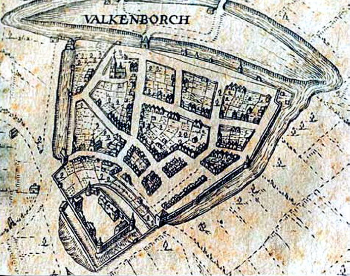 Valkenburg, Limburg, the Netherlands. Map of Valkenburg (Jacob van Deventer (16th c)